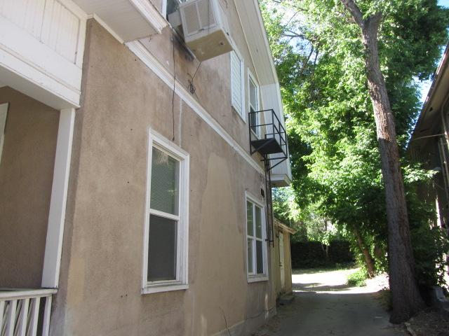 Side view of house at 565 First Avenue in Salt Lake City, UT, that Ted Bundy lived in from September 1974 to October 1975. Shows the fire escape that Bundy used to sneak in to his second floor room when he did not wish to be observed. Bundy is believed to have taken some of his Utah victims, possibly including Melissa Smith, Laura Aime, and Deborah Kent, up to his room via this fire escape.